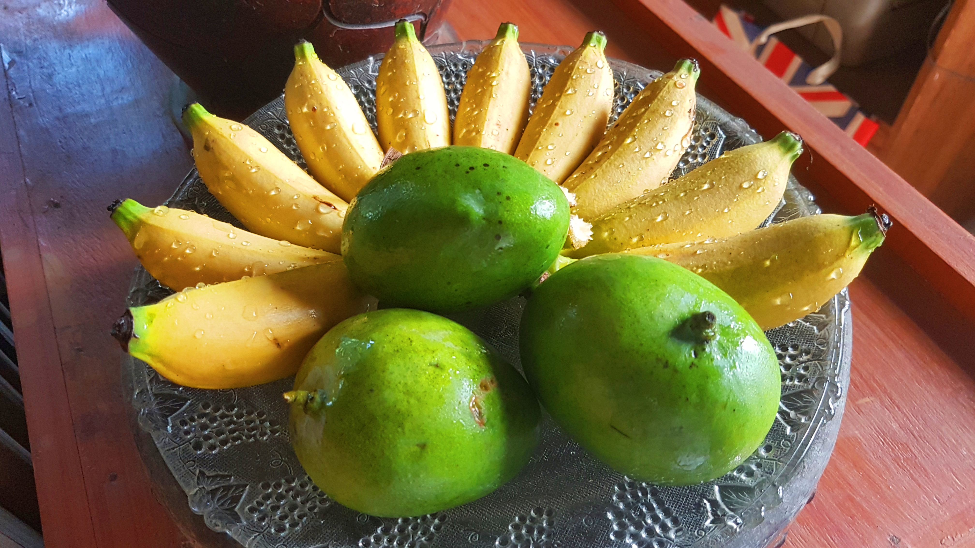 Señorita bananas and Indian (Katchamitha) mangoes (Philippines)